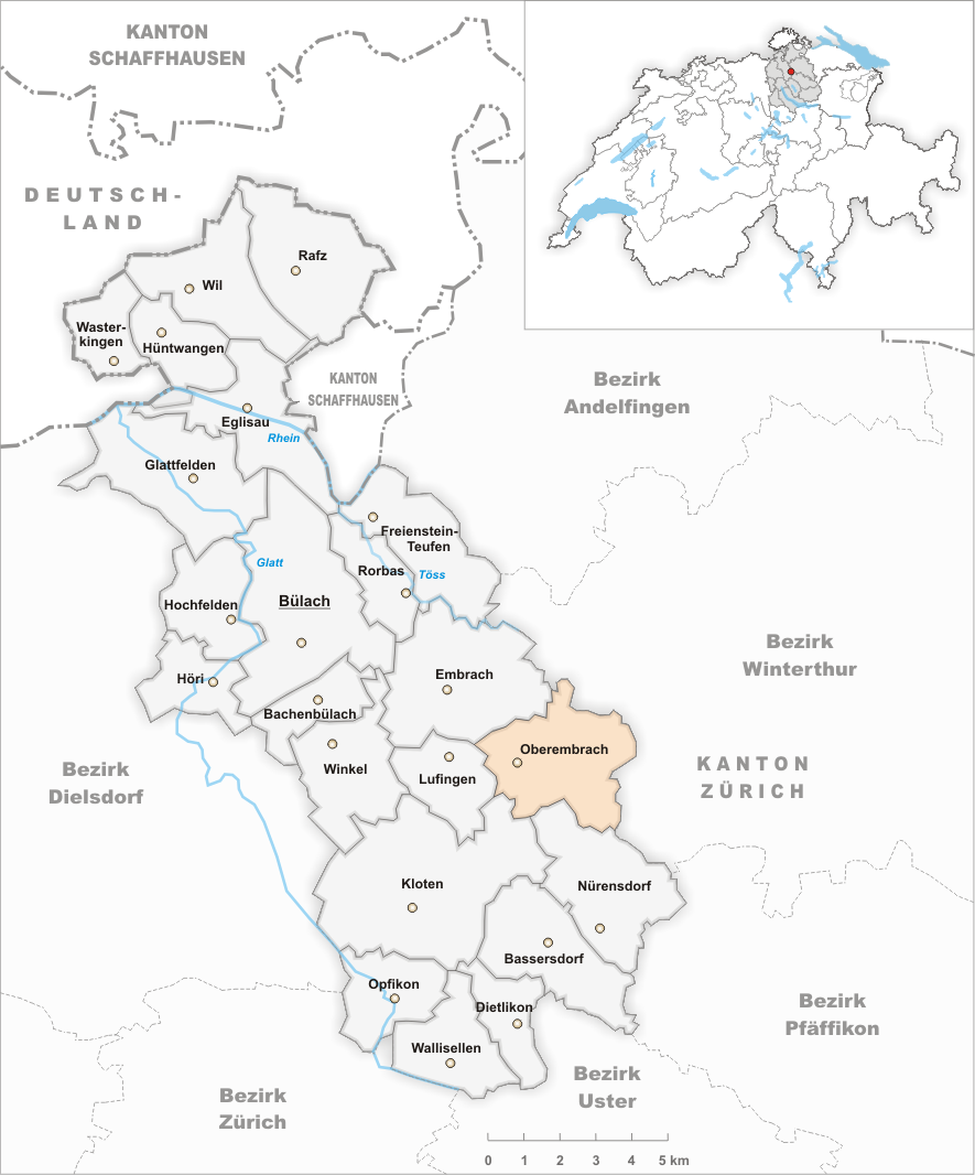 Municipality Oberembrach